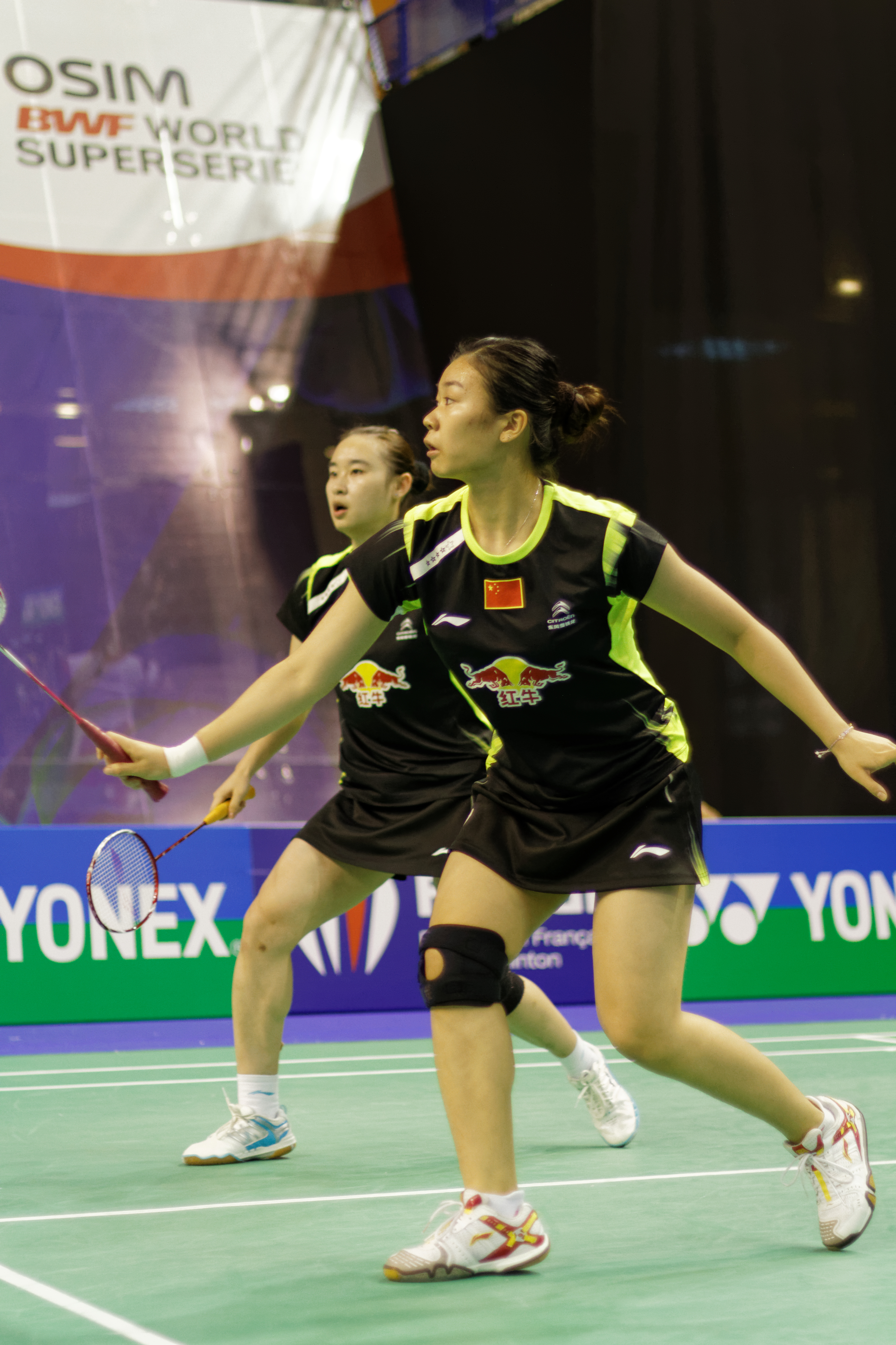 2013 French open. Women's doubles quarterfinal. Reika Kakiiwa and Miyuki Maeda vs Bao Yixin and Tang Jinhua.